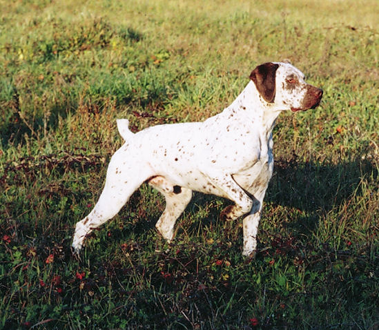 Photo of my dog, Vrac du Rocher des Jastres, pointing a patridge, taken by me. Can be used by anyone, as long as he mentions the name of the dog